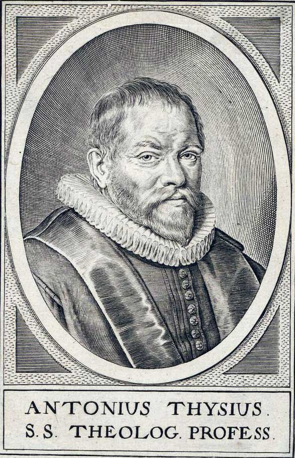 Antonius Thysius the Elder (1565-1640), Dutch Reformed theologian